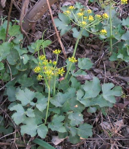 Lomatium lucidum at Circle X Ranch: Mishe Mokwa trail, Santa Monica Mountains National Recreation Area, California, USA.